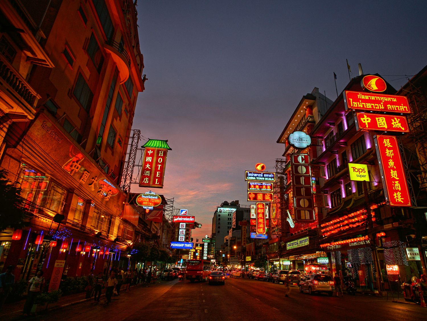 thanon yaowarat around sunset